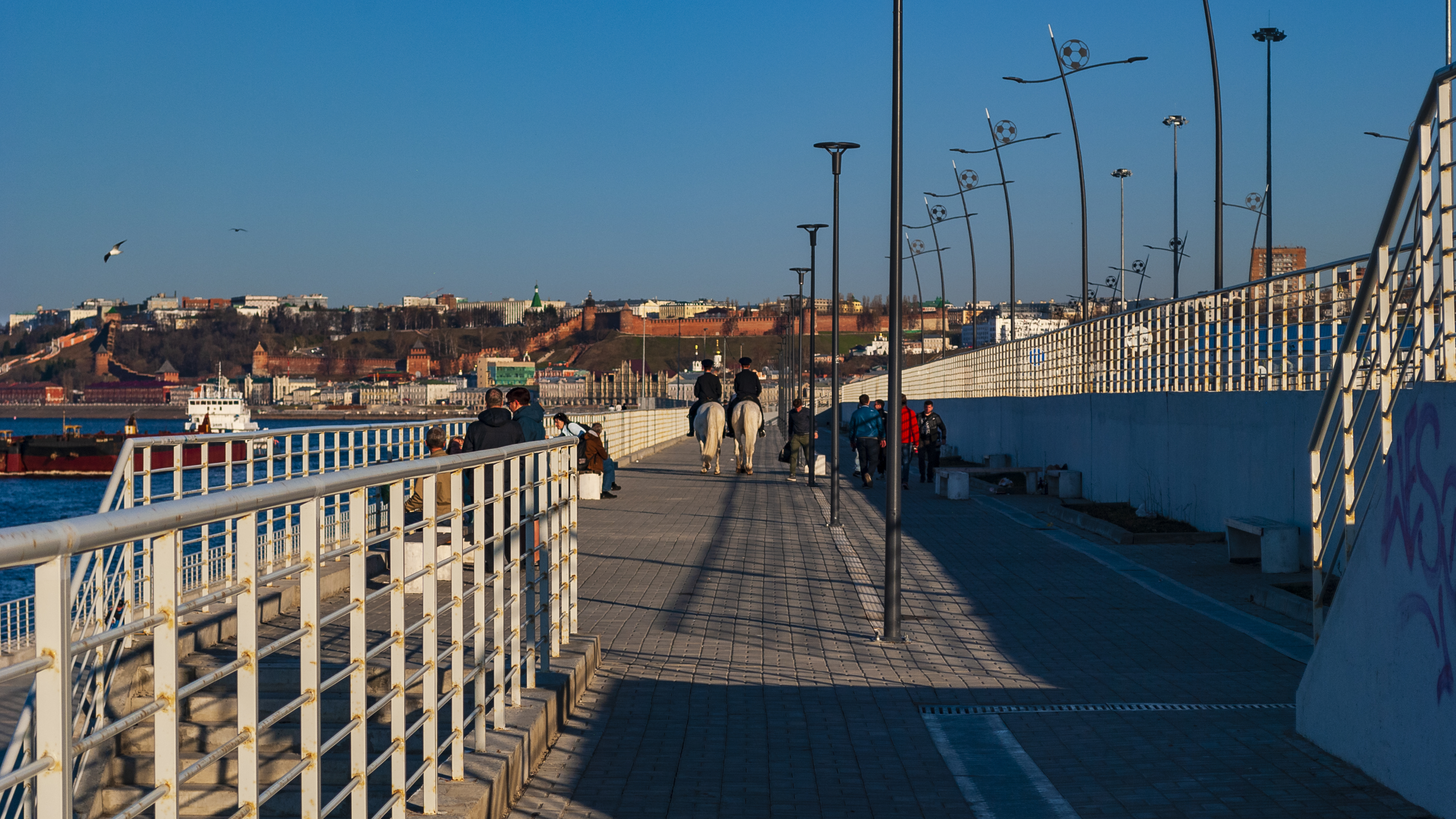 Mounted police on the Volga River Embankment in Nizhny Novgorod